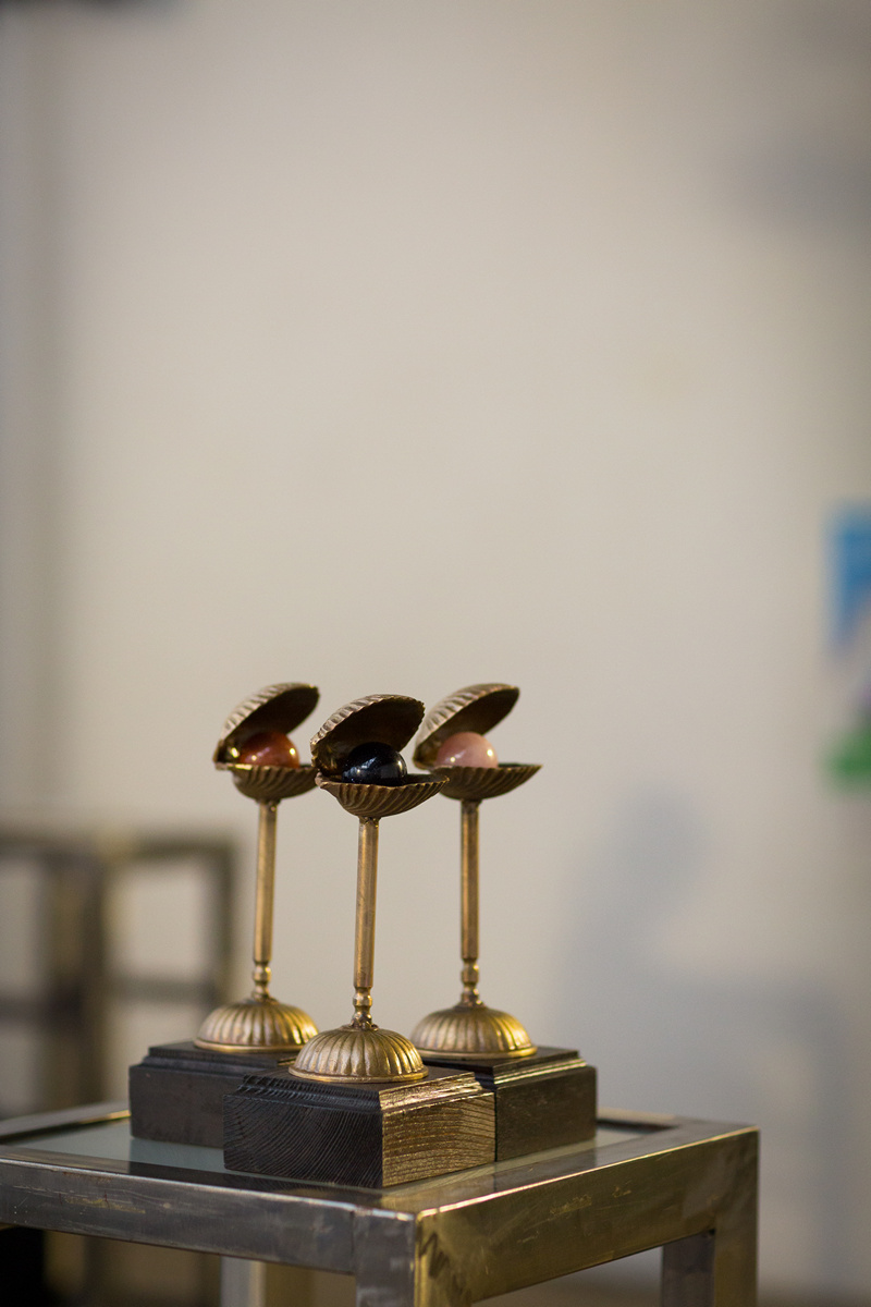 Magic Pearl Children's` Choice Award